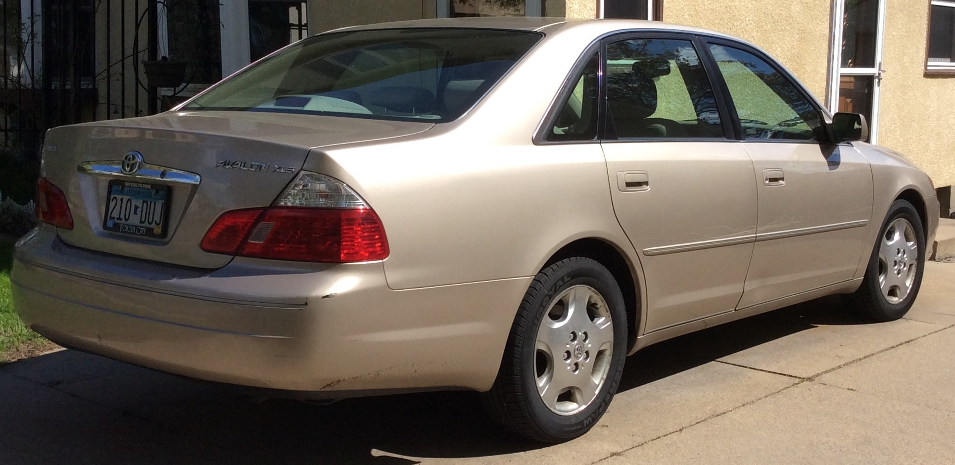 A 2nd-generation Toyota Avalon XLS. Photographed in St. Paul, Minnesota, United States of America.